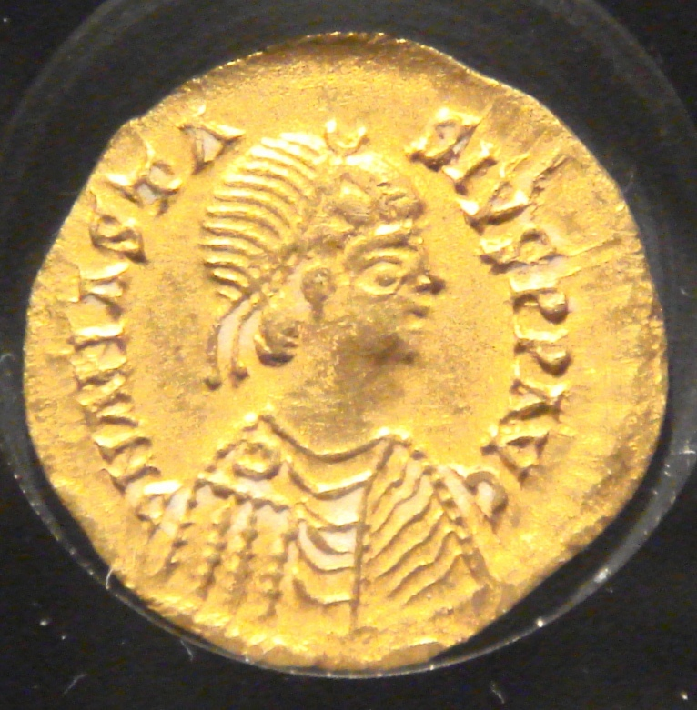 Alaric_II_484_507_gold_1470mg_obverse (Wisigothic tremissis). Minted in the name of Byzantine emperor Anastasius I (491-518). Portrait of Anastasius depicted on the coin.